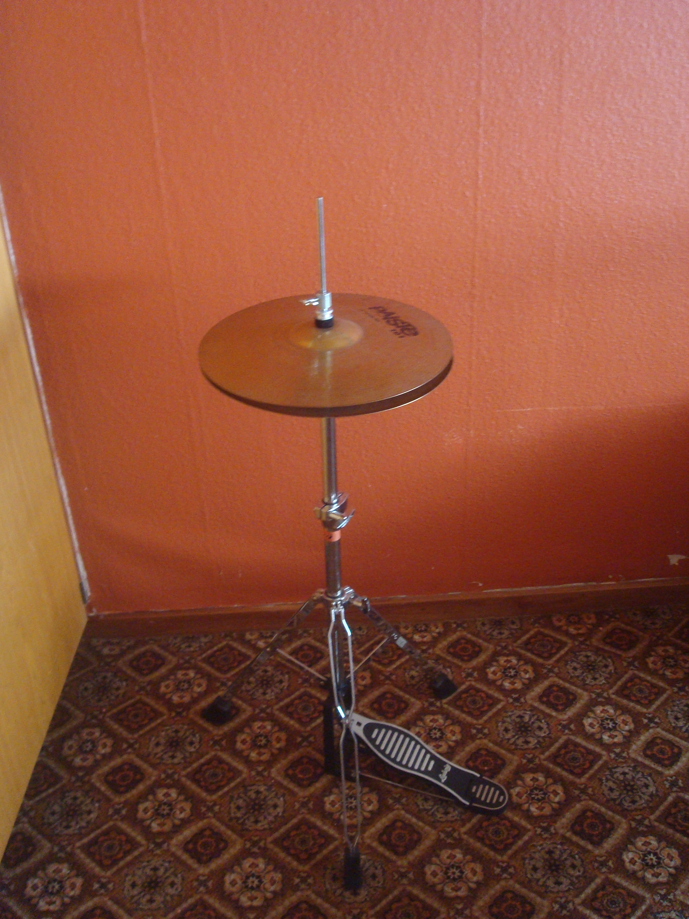 The location of the hi-hat, where I have saved the rest of the drum kit in the background